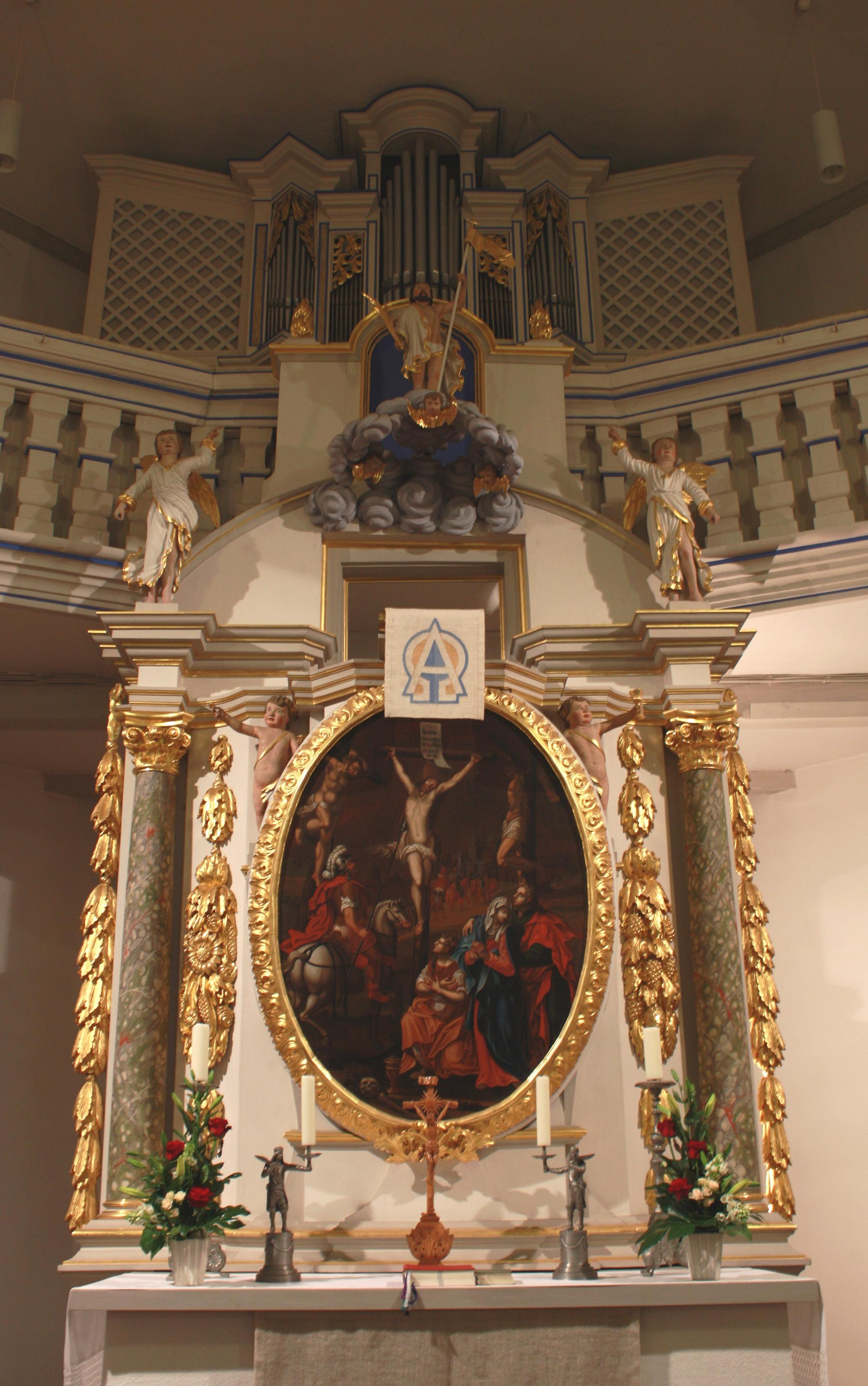 Crandorf Church, altar, organ